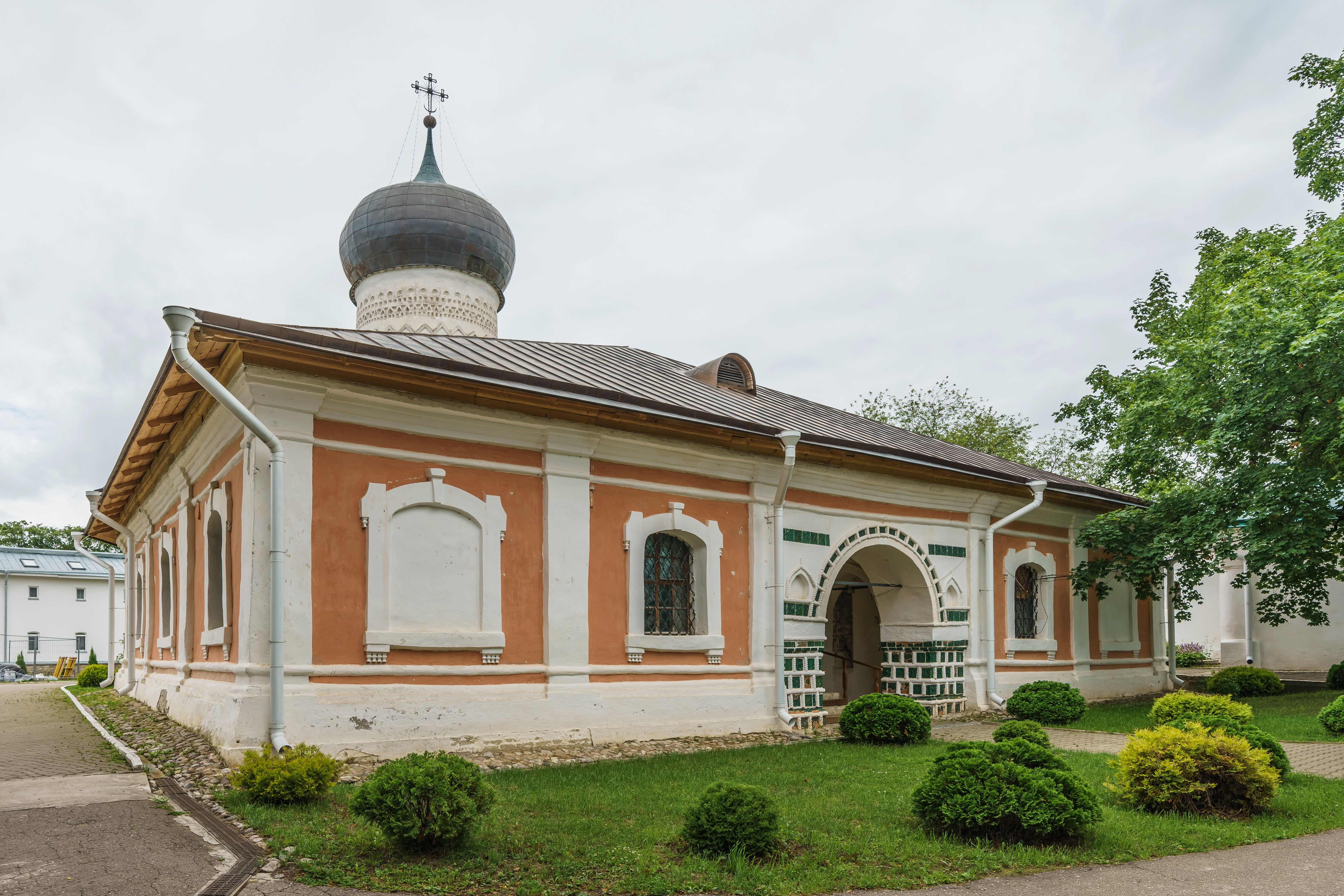 Church of the Nativity of St. Mary in Snetogorsky Monastery in Pskov, Russia